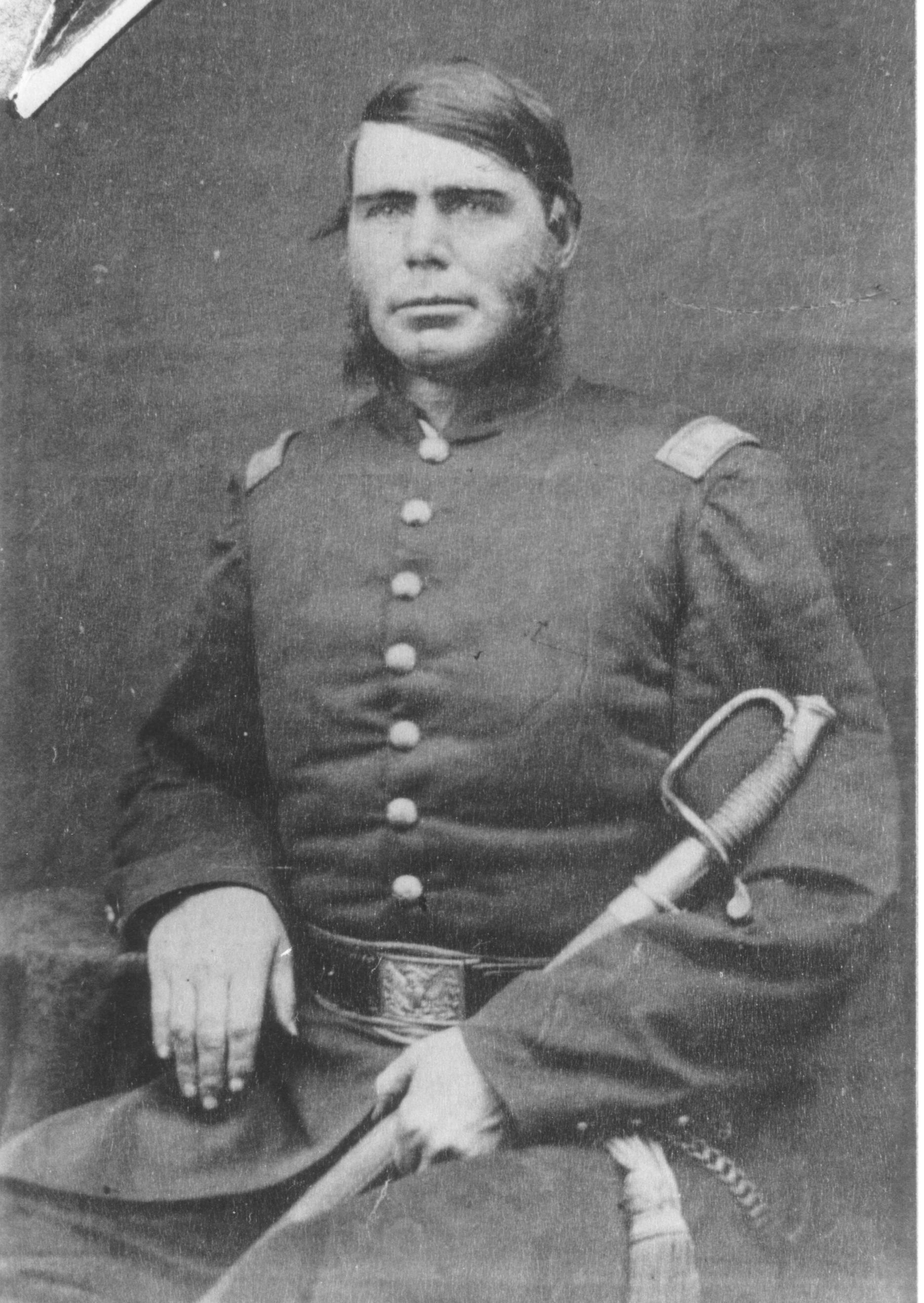 Photograph of William Colvill taken in 1861